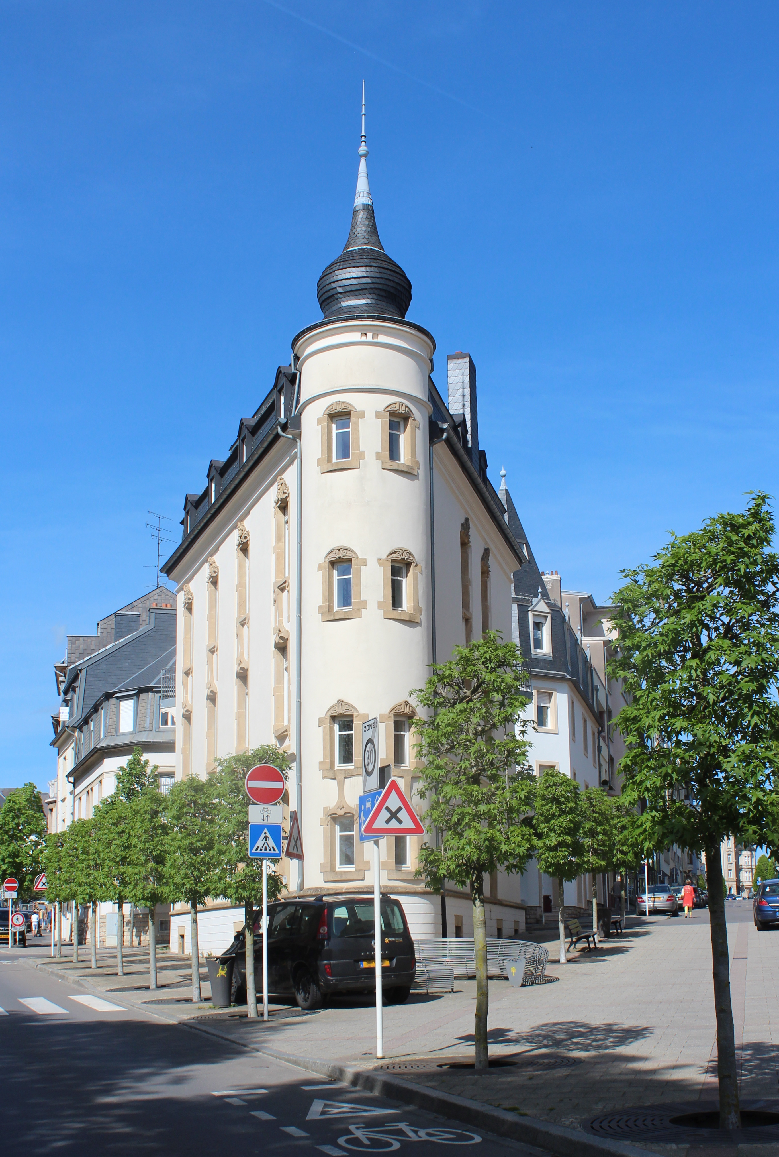 "Streckeisen" building in Luxembourg City.